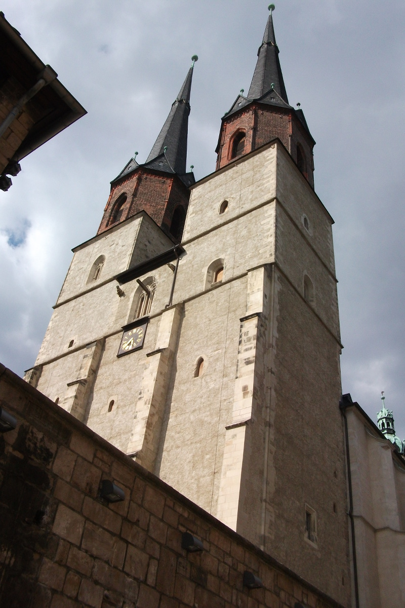 The Market Church in Halle (Saale).